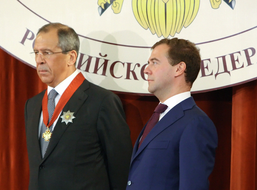 “Russian President Dmitry Medvedev bestows state awards on Russia's diplomats”. Russian President Dmitry Medvedev (right) bestowing state awards on Russia's diplomats at a meeting, with Russian Foreign Minister Sergei Lavrov (left) awarded with the Order of Service to the Fatherland, 2nd class.